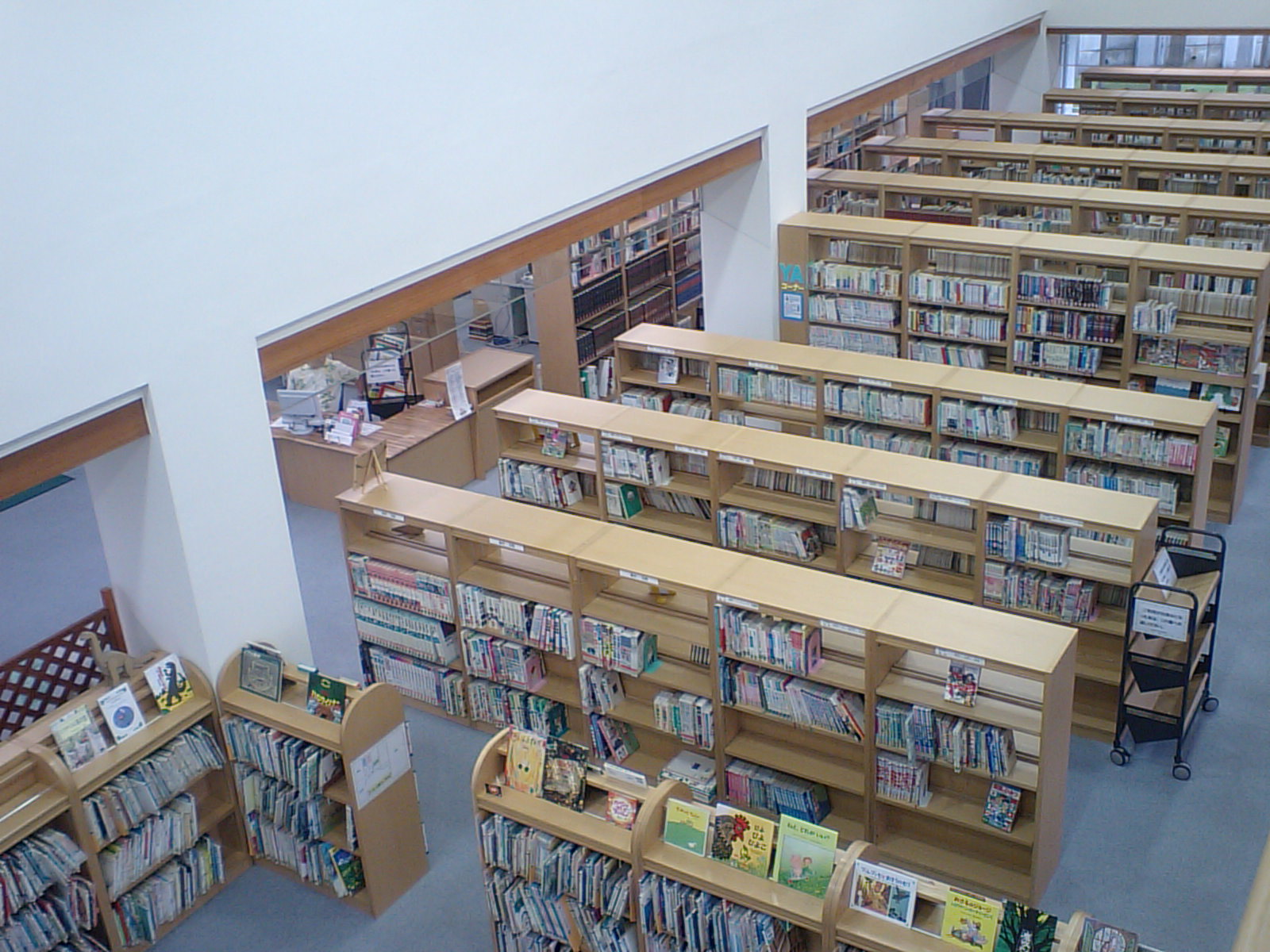 Haebaru town Central community center Library - Nippon - okinawa